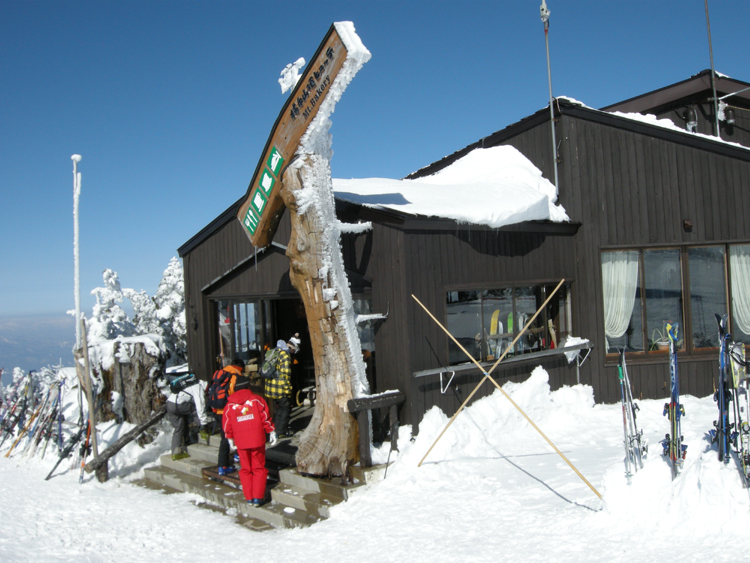 Yokote Sancho Hut in Mount Yokote.